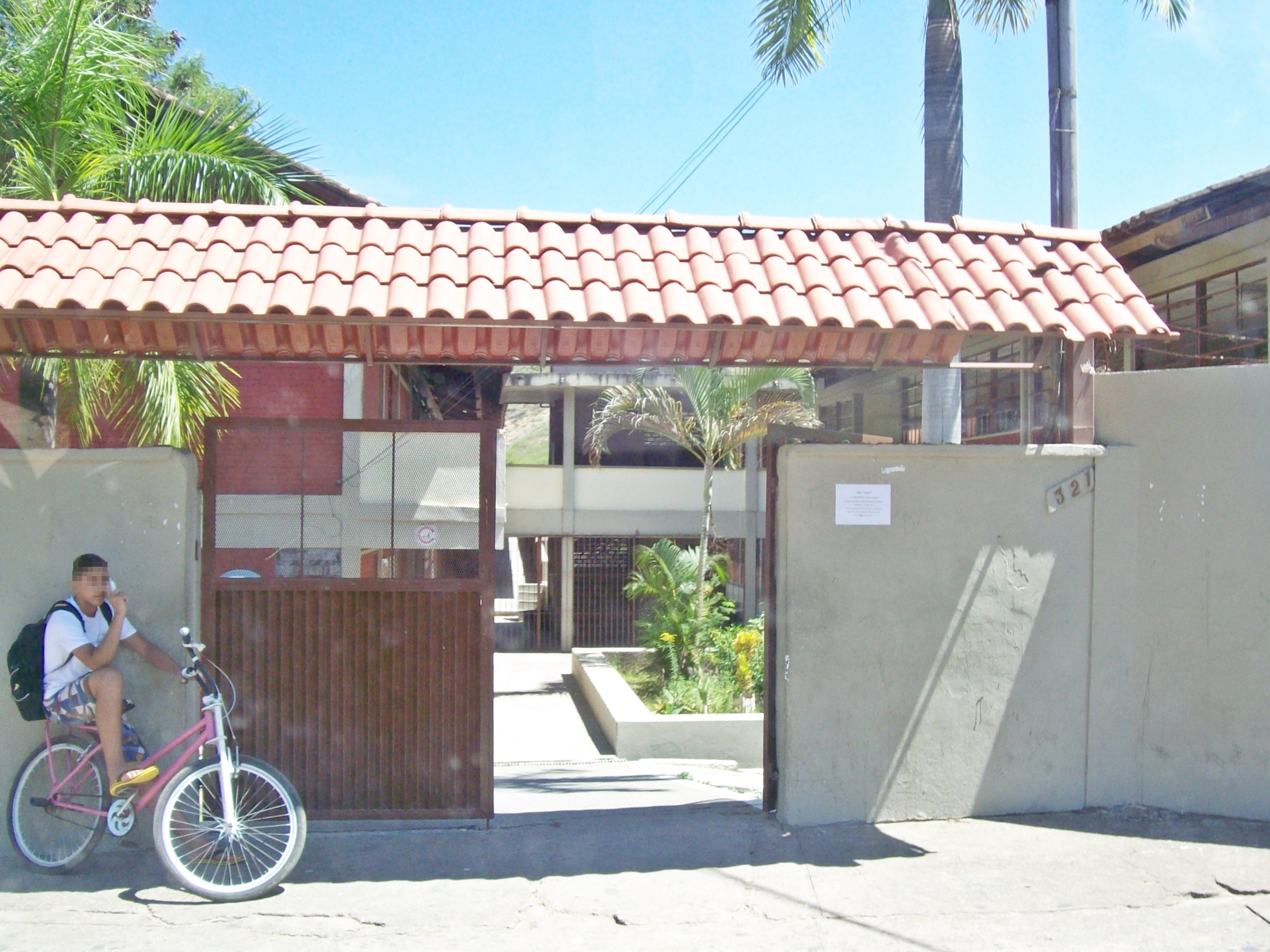 Entrance of the Perlingeiro de Abreu estadual school, in Coronel Fabriciano, Minas Gerais, Brazil.